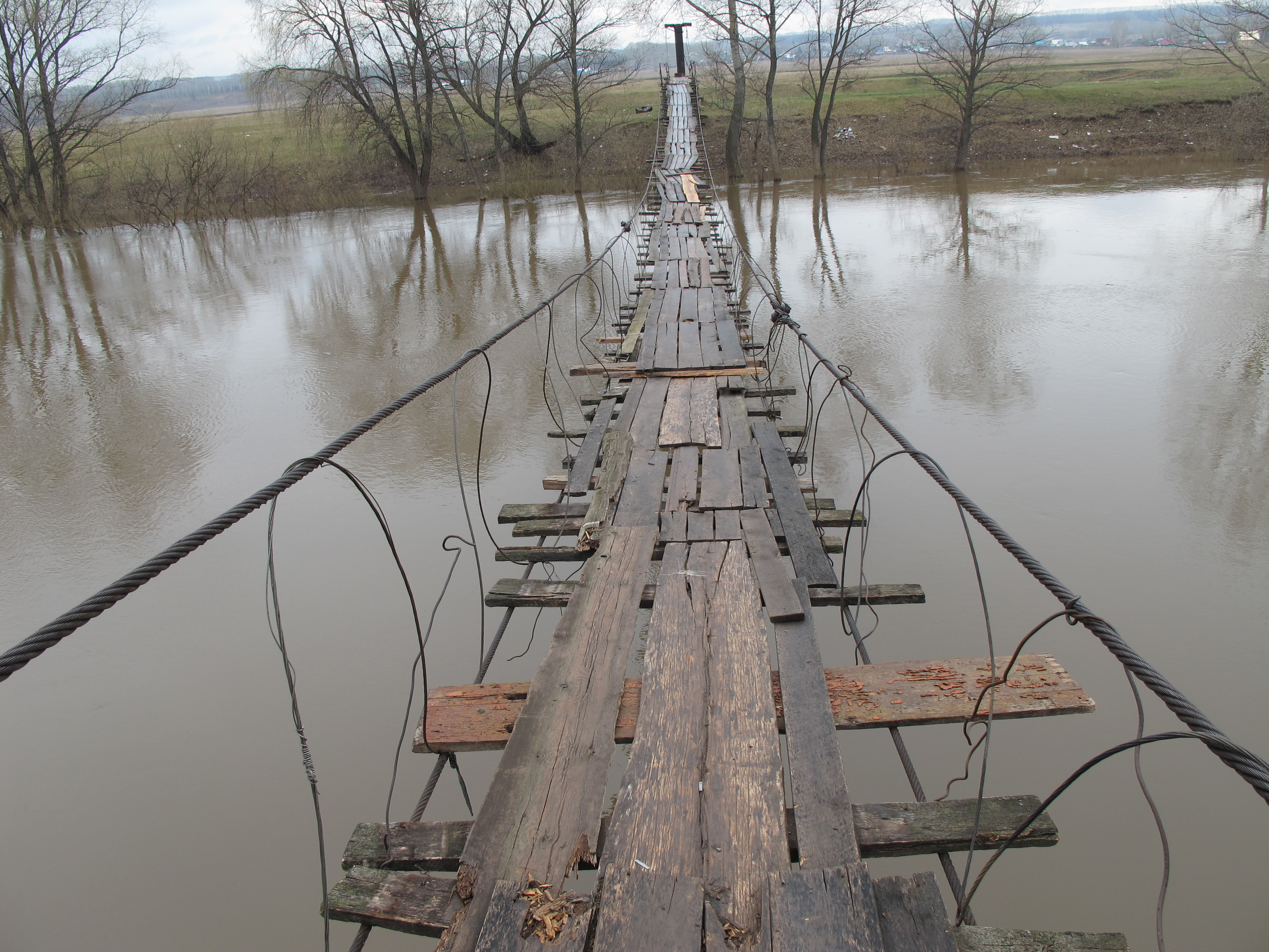 Bridge over the River Dyoma near the village Bochkarevka.